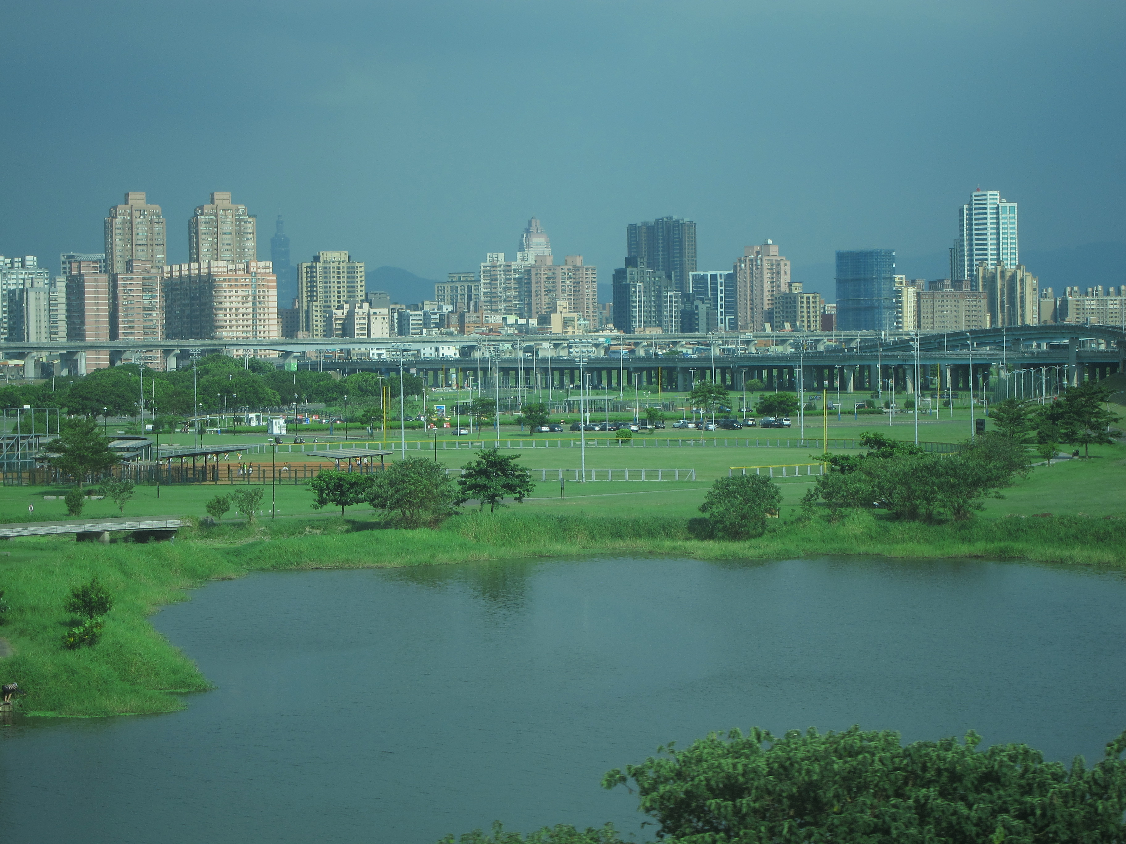 View on New Taipei, Taiwan.